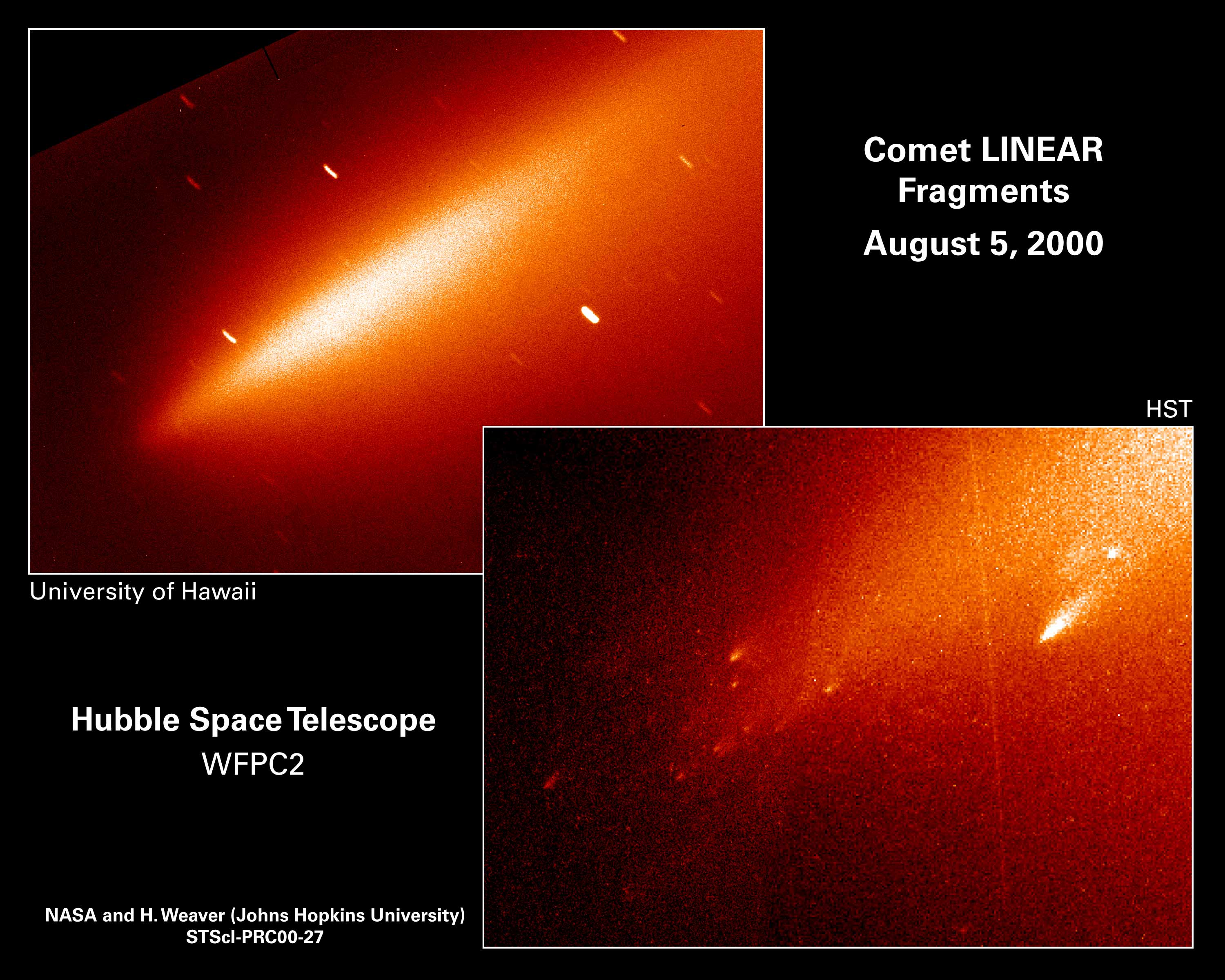 Hubble Space Telescope image of comet C/1999 S4 (LINEAR) that disintegrated around July 23, 2000.